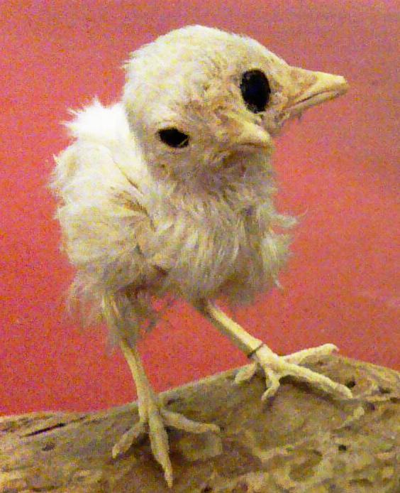 A malformed chick with two beaks and three eyes from the collections of the Zoological Museum of the University of Oulu, Oulu, Finland.